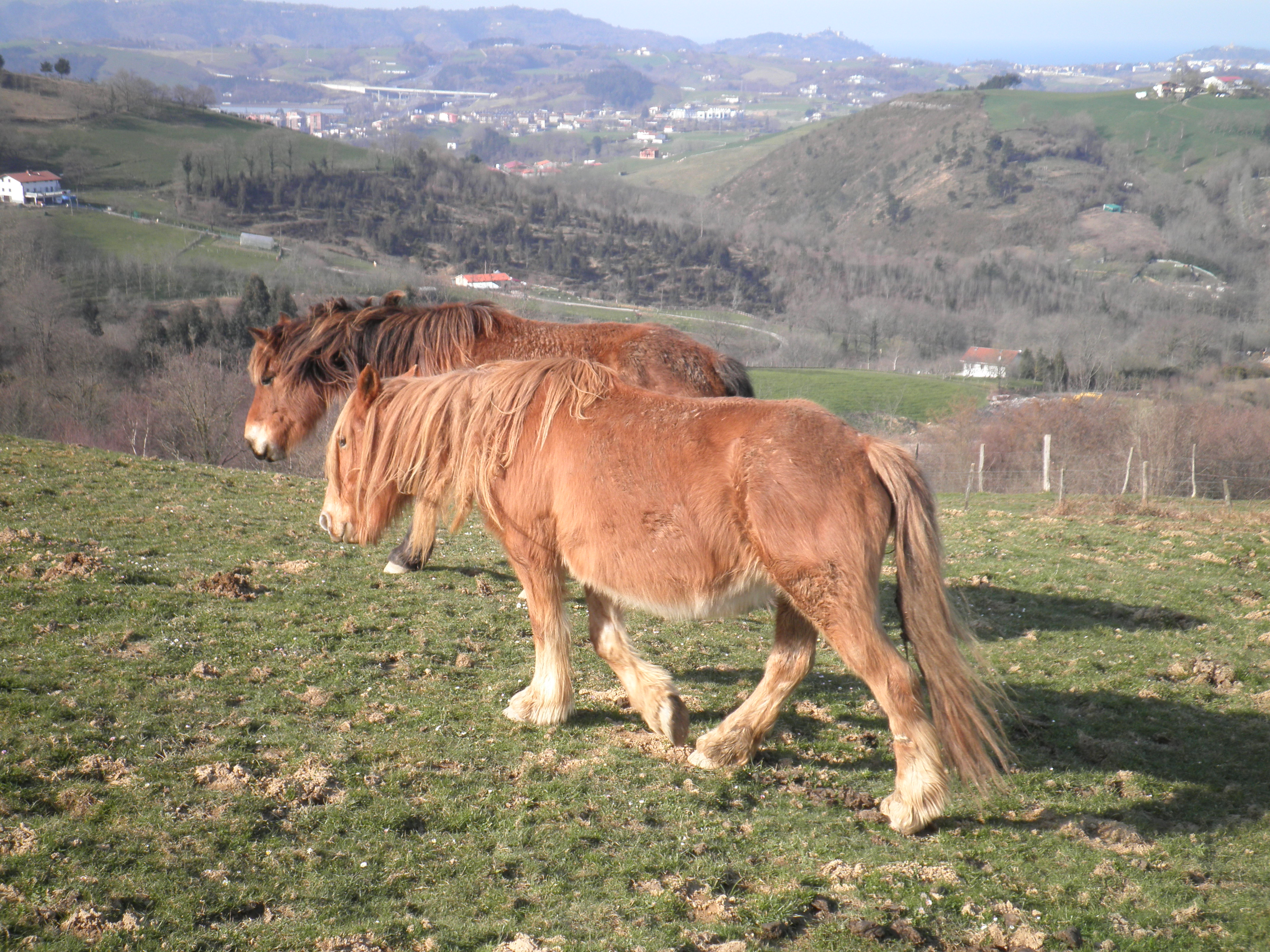 Horses in Buruntza